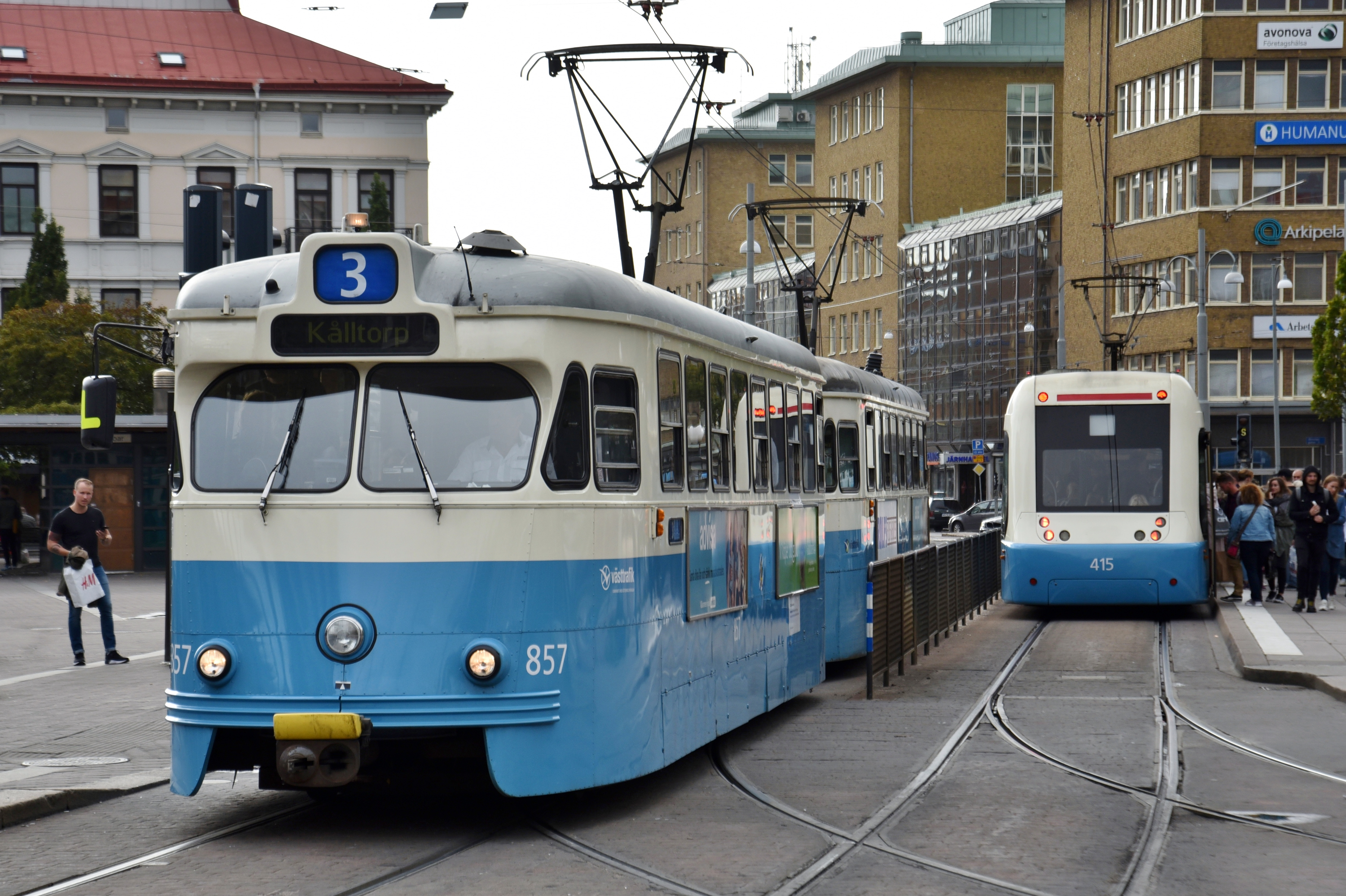 Göteborgs Spårvägar tram no. 857 operating a line 3 service departing from the Järntorget tram stop, Gothenburg, Sweden